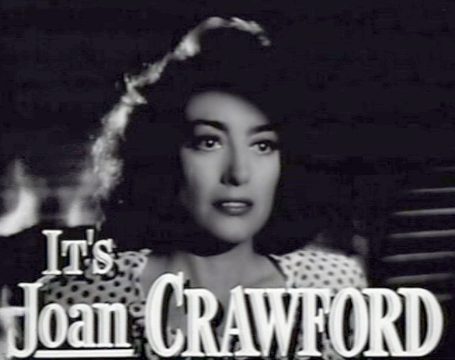 Cropped screenshot of Joan Crawford from the film Mildred Pierce